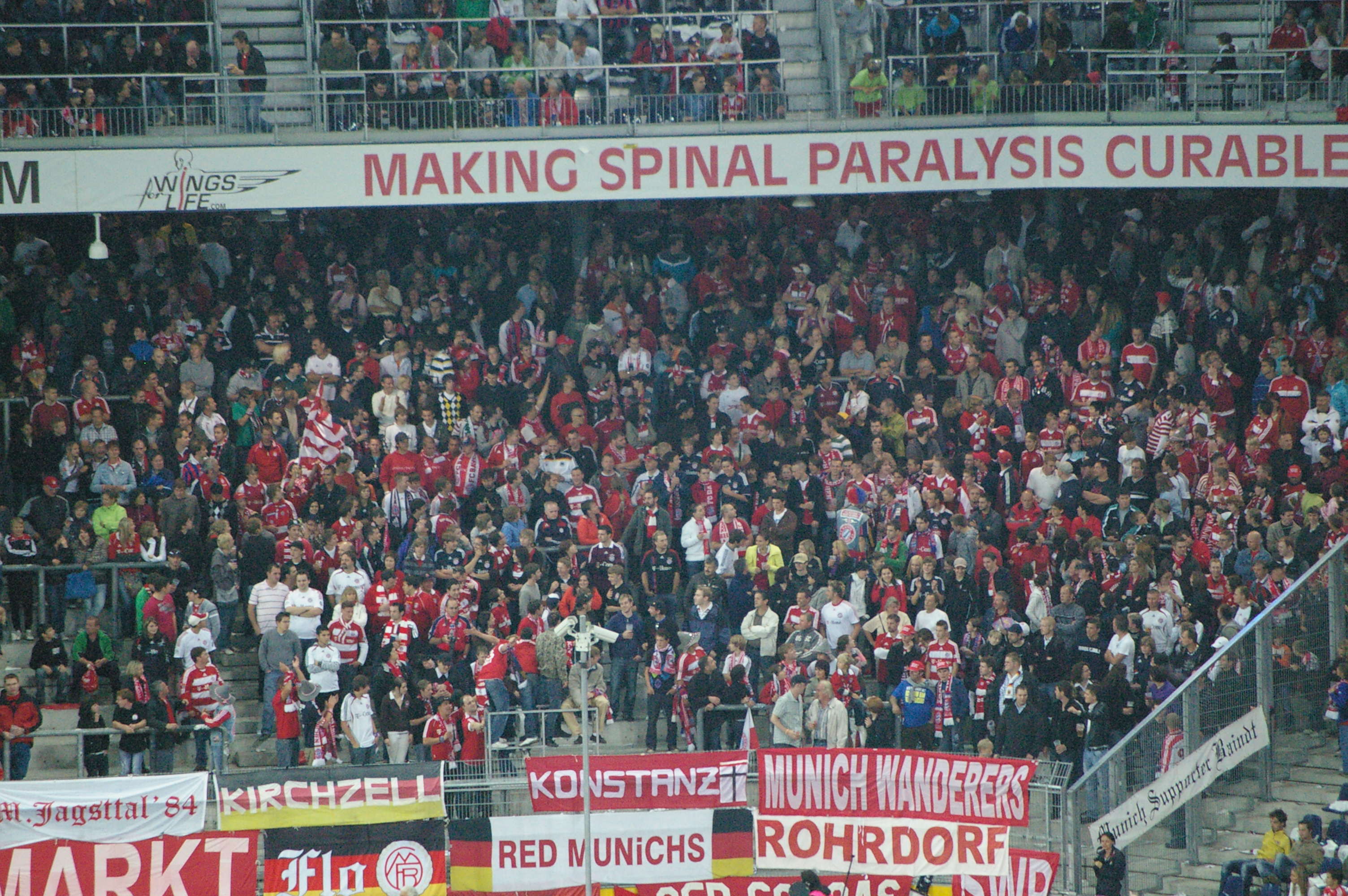 Bayern Muinich supporters during the friendly Match vs.Red Bull Salzburg